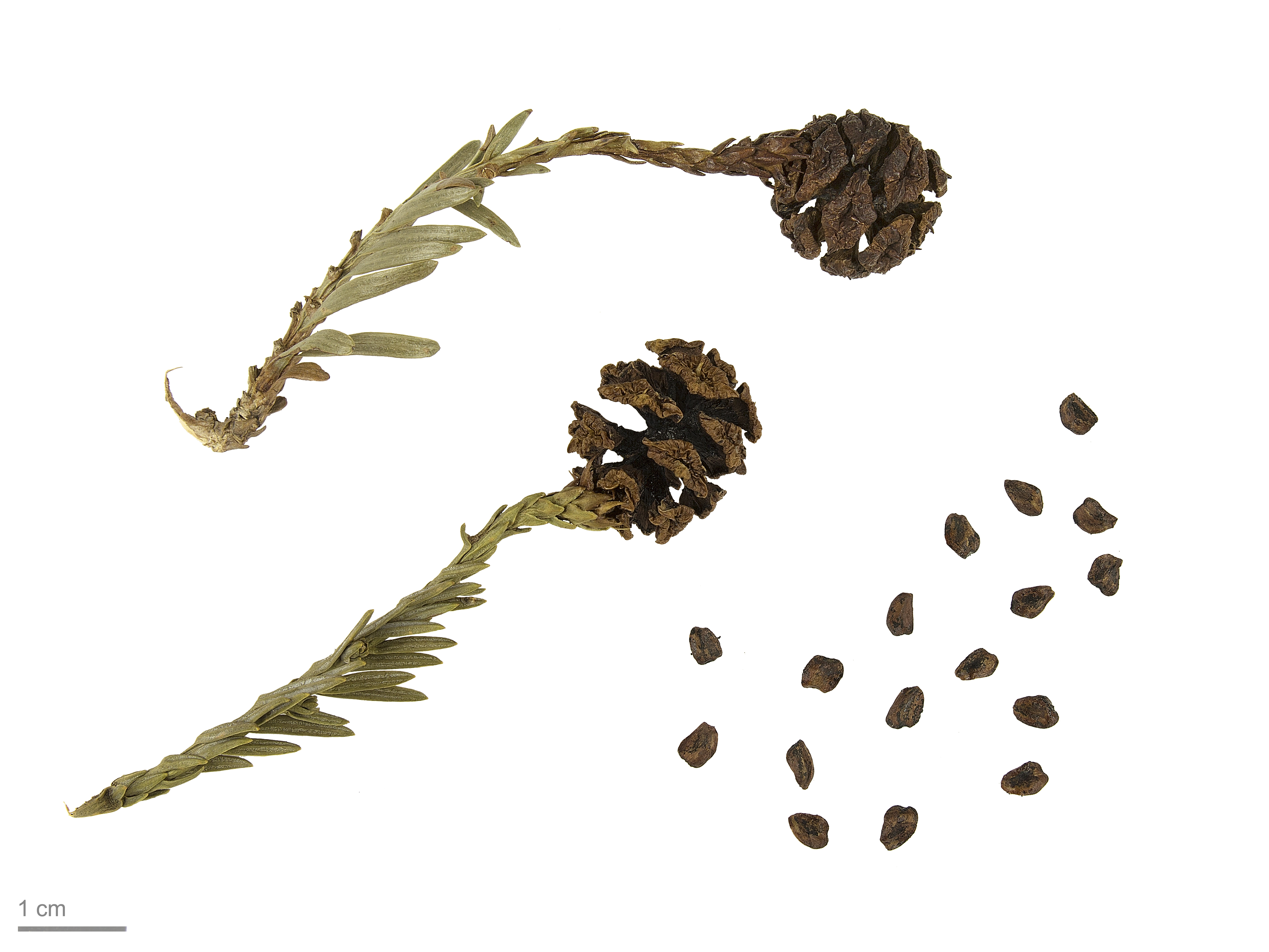 Coast Redwood, cones and seeds